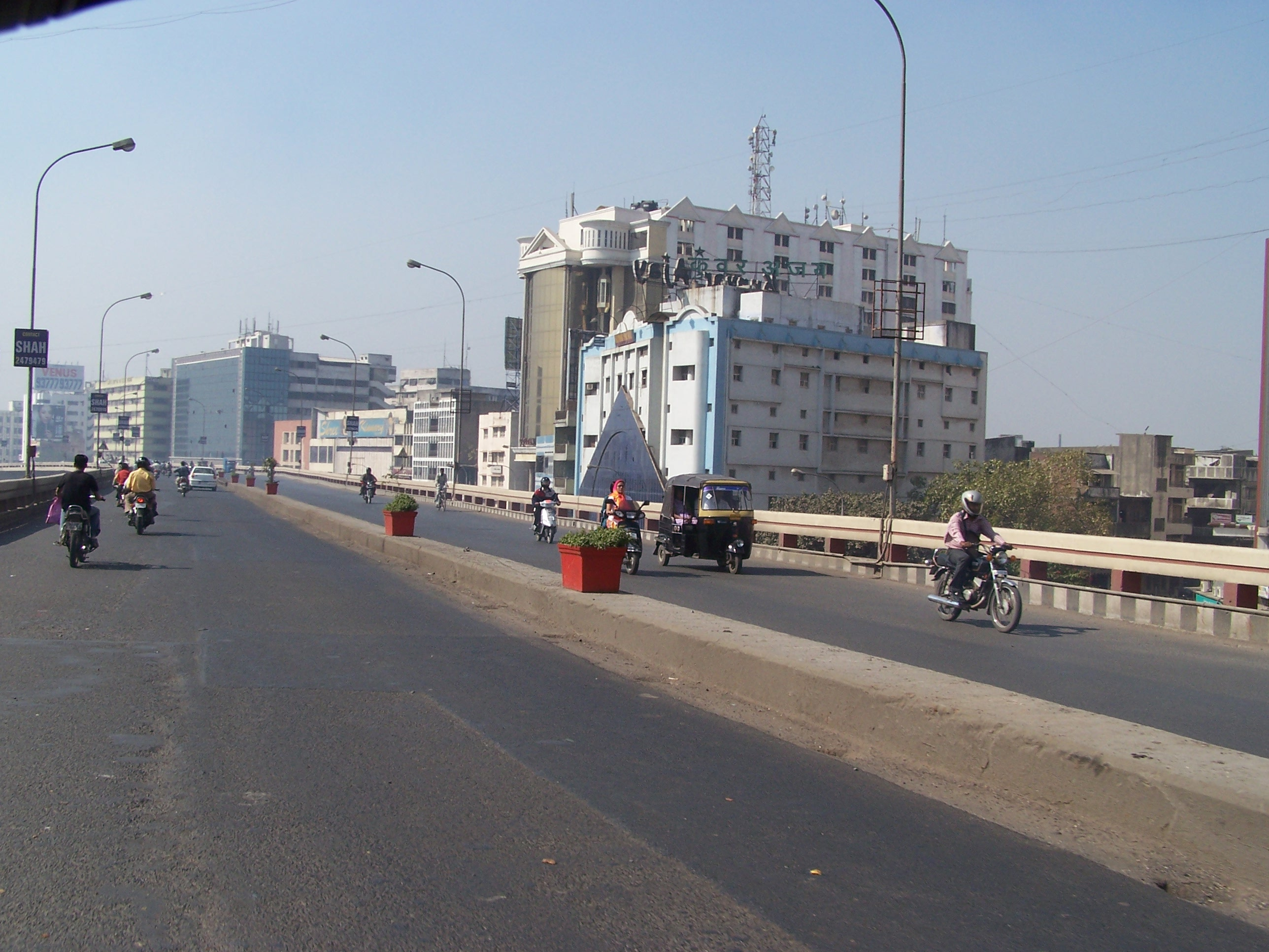 Surat Photograph taken December 2005 by S.K.Desai Flyover originating at railway station traversing through Surat's textile district Ring Road Kunvar Ajay, Manoj Patel